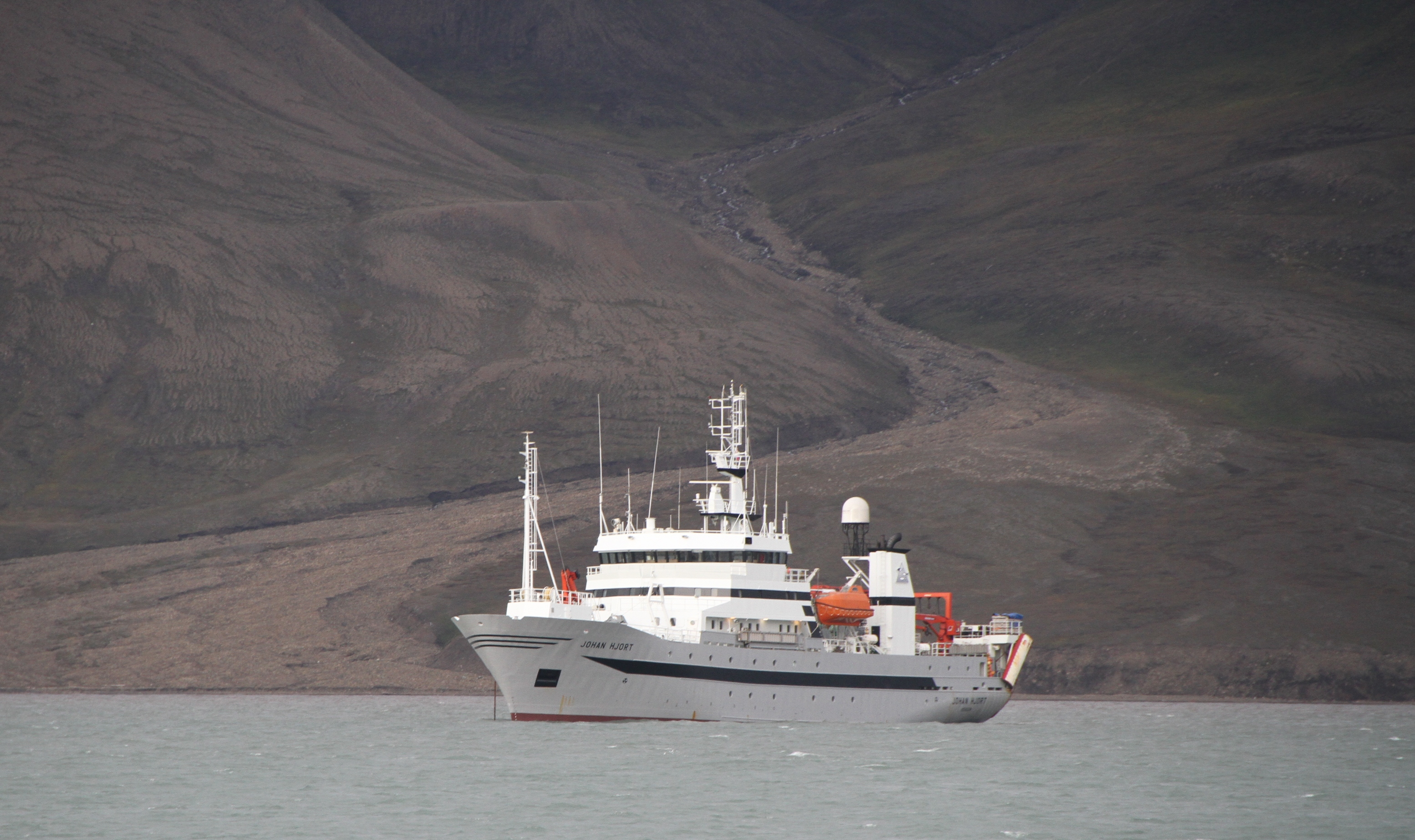 FF "Johan Hjort", norwegian oceanographic reearch vessel, belonging to Havforskningsinstituttet in Bergen. Here in Adventfjorden, Spitsbergen.